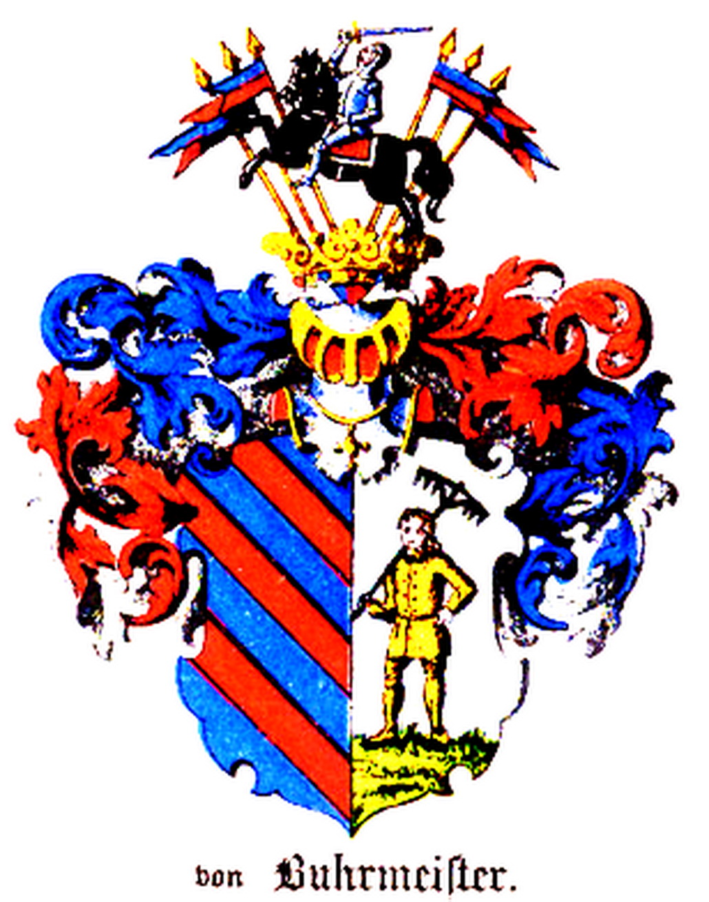 Coat of arms of Buhrmeister family